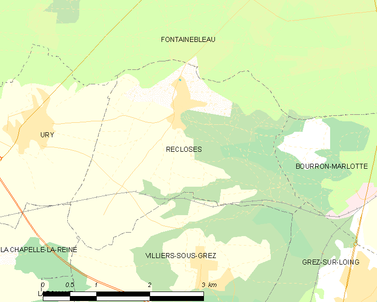 Map of French municipality Recloses